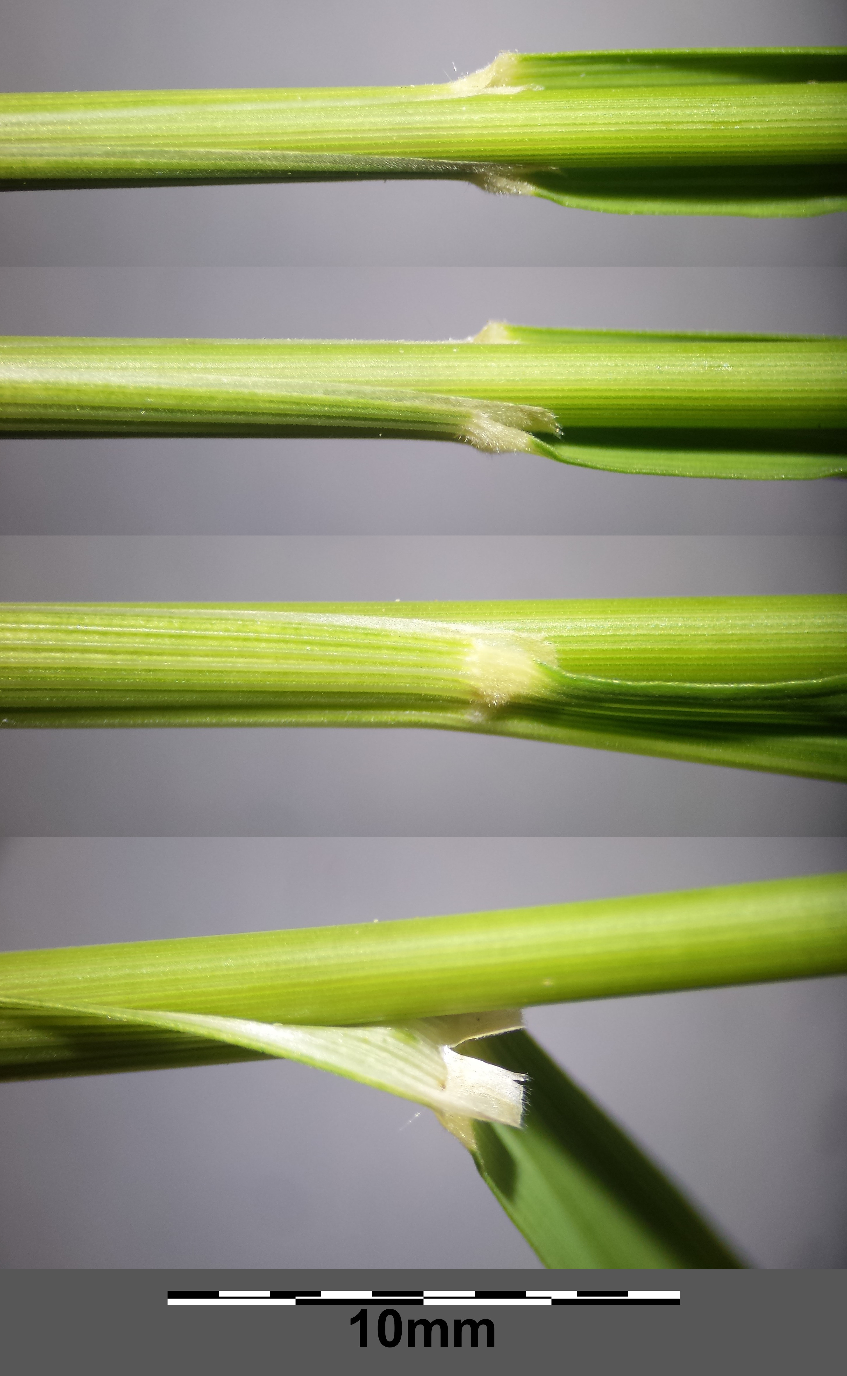 Stem with leaf sheath and ligule Taxonym: Brachypodium pinnatum ss Fischer et al. EfÖLS 2008 ISBN 978-3-85474-187-9 Location: Latschenberg near Altenmarkt im Thale, district Hollabrunn, Lower Austria - ca. 330 m a.s.l. Habitat: semi-dry grassland